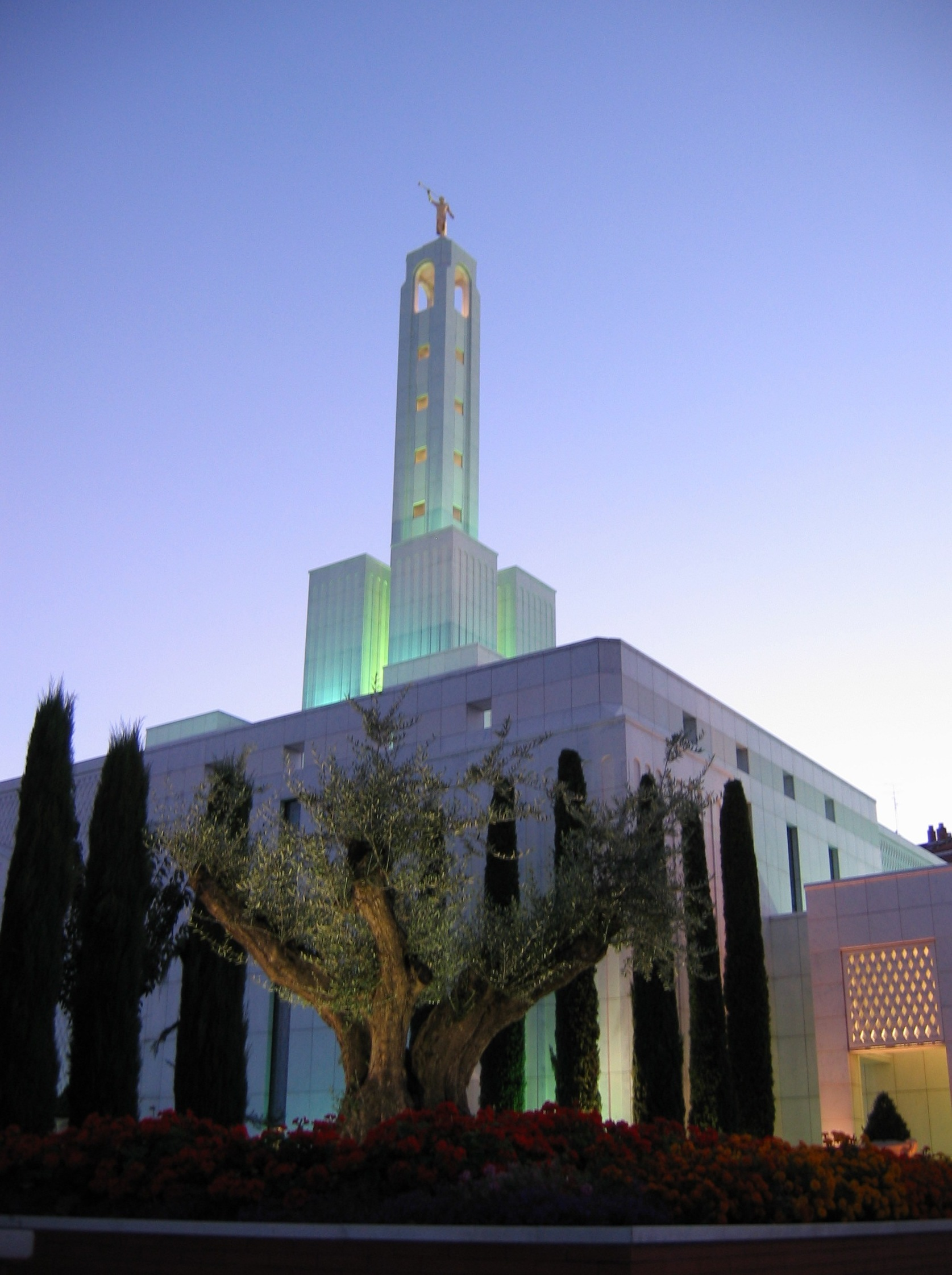 The Madrid Spain Temple of The Church of Jesus Christ of Latter-day Saints. The photo was taken in Madrid, Spain by myself, Nate Lewis, in Aug 2004.